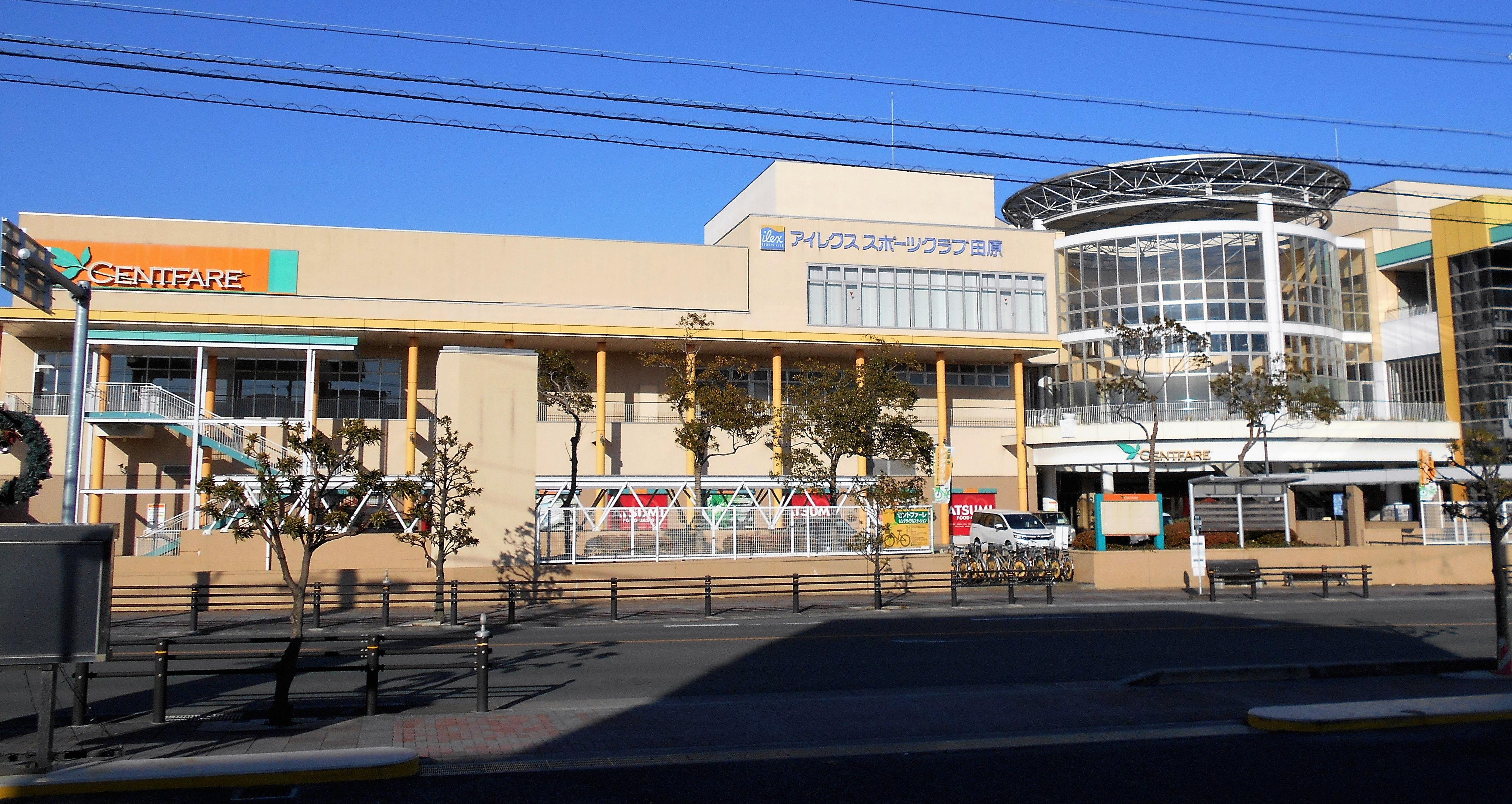 CENTFARE（Retail buildings in Tahara city, Aichi prefecture）